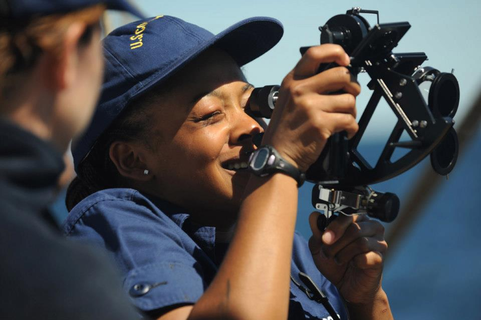 A Coast Guard Academy Cadet uses a sextant to take a sun line onboard USCGC Eagle.